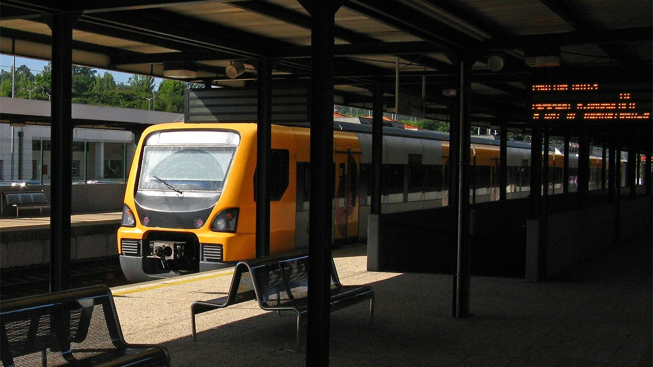 UME 3400